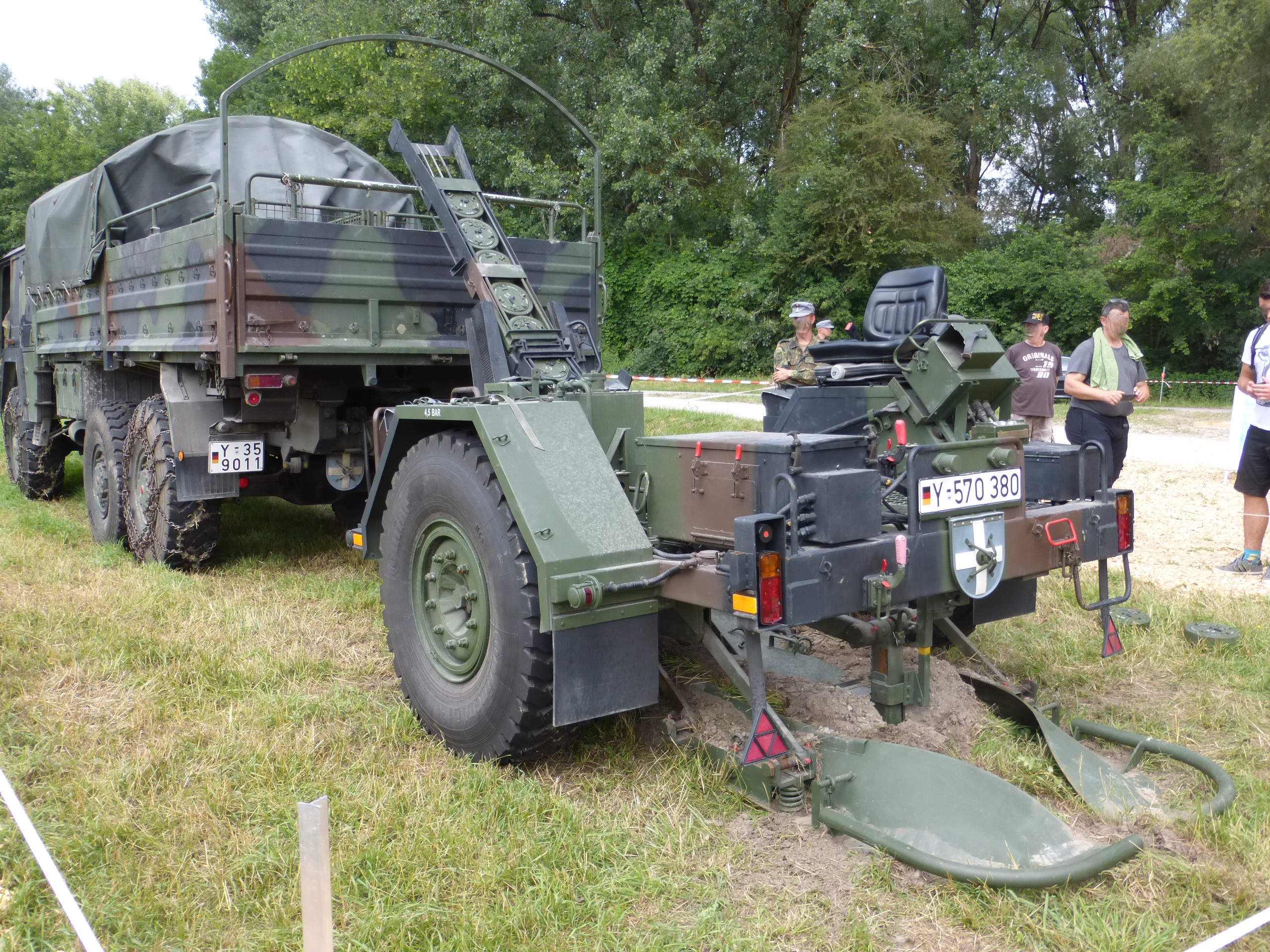 Mine laying system "Minenverlegesystem 85" at the "Day of the Bundeswehr 2018" in Ingolstadt, Bavaria